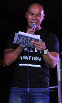 Philippine television host Rovilson Fernandez at the Rock For a Fully Abled Nation benefit concert in Eastwood City, Manila, Philippines.